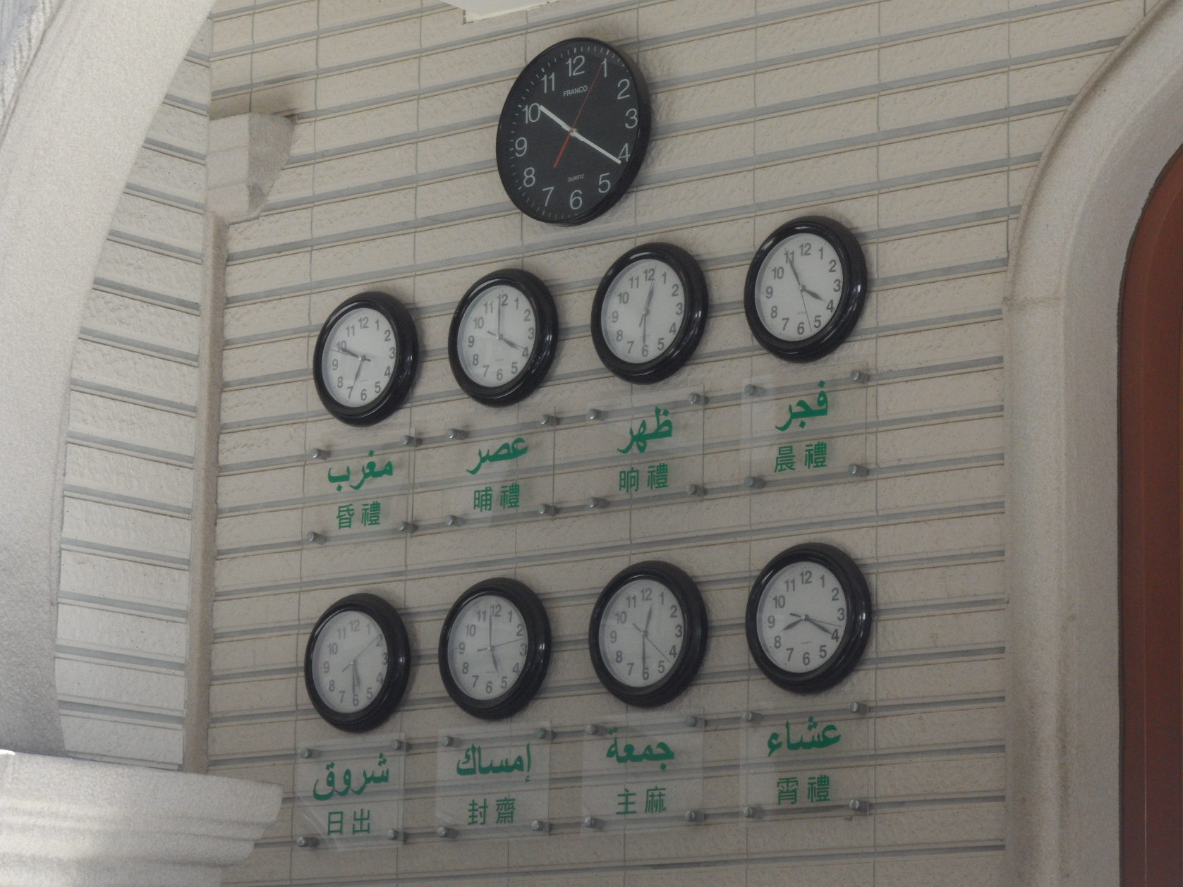 Taipei Cultural Mosque, Zhongzheng, Taipei, Taiwan